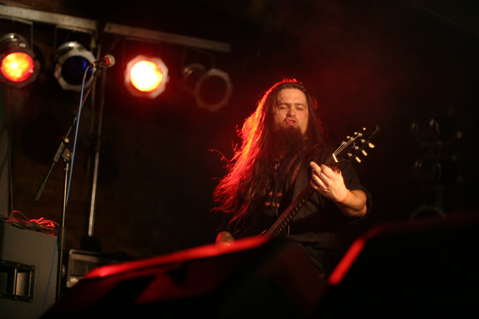 Sergei "Lazar", guitarist of the russian Pagan-Metal-Band Arkona, performing live at the Black Troll Festival (Germany) in 2010.